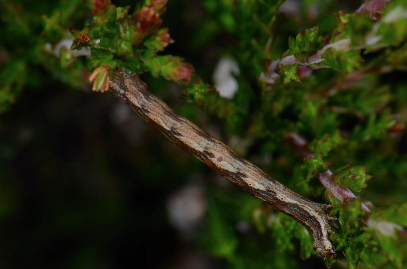 Pachycnemia hippocastanaria, larva. Location: The Netherlands - Nationaal Park de Meinweg.